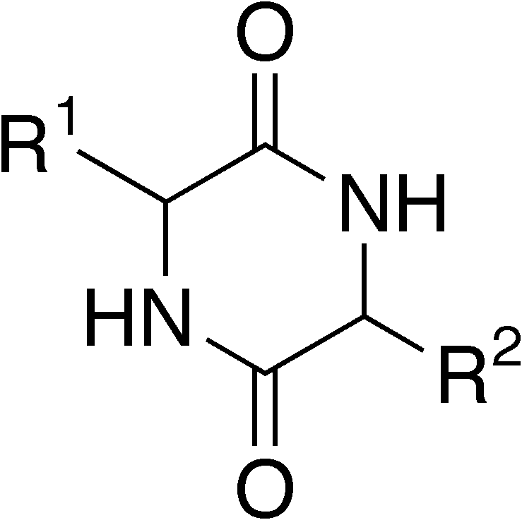 general chemical structure of a diketopiperazine